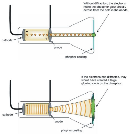 A cathode ray tube and how things would have looked were electrons to diffract in this situation.